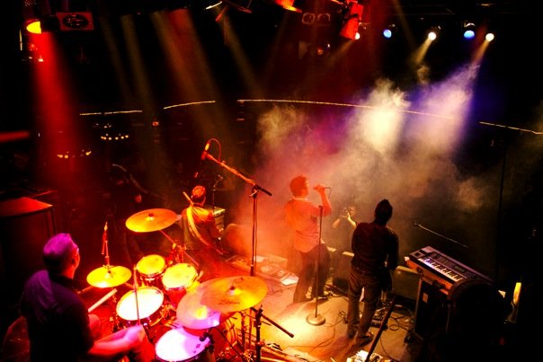 Live Performance @ Richard's on Richards, Vancouver, BC, 2009